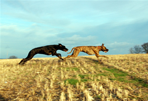 Great Dane exercise